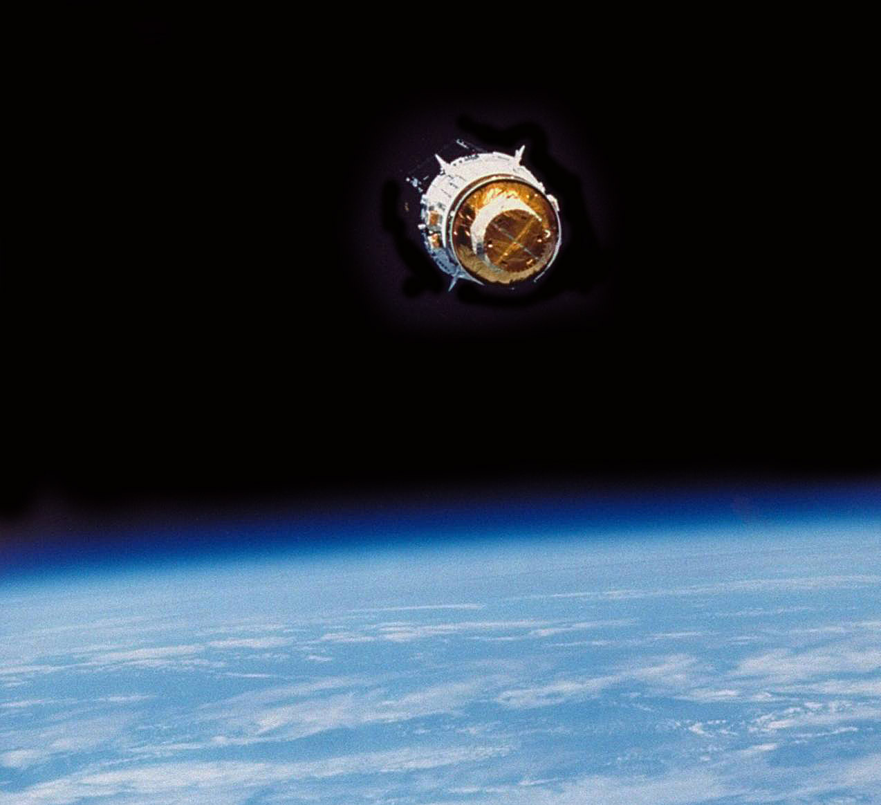 Distant view of the receding TDRS/IUS stack on STS-29.